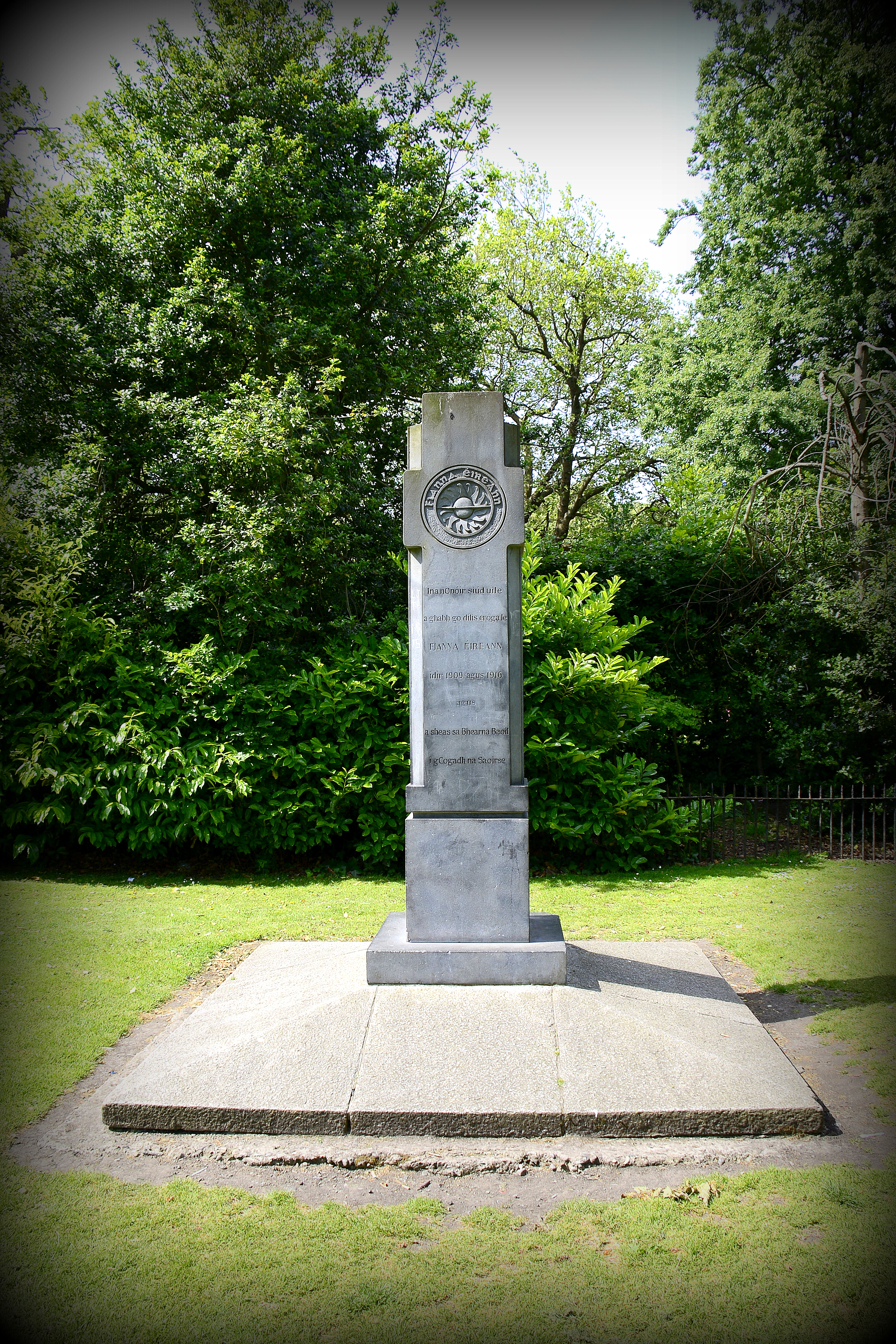 Fianna Éireann (The Irish nationalist youth organization; Na Fianna Éireann; Fianna na hÉireann) memorial. The back side of it reads" To honor all those who served with Fianna Éireann, 1910-1916 and through the war of independence." St. Stephen's Green Park, Dublin, Republic of Ireland.